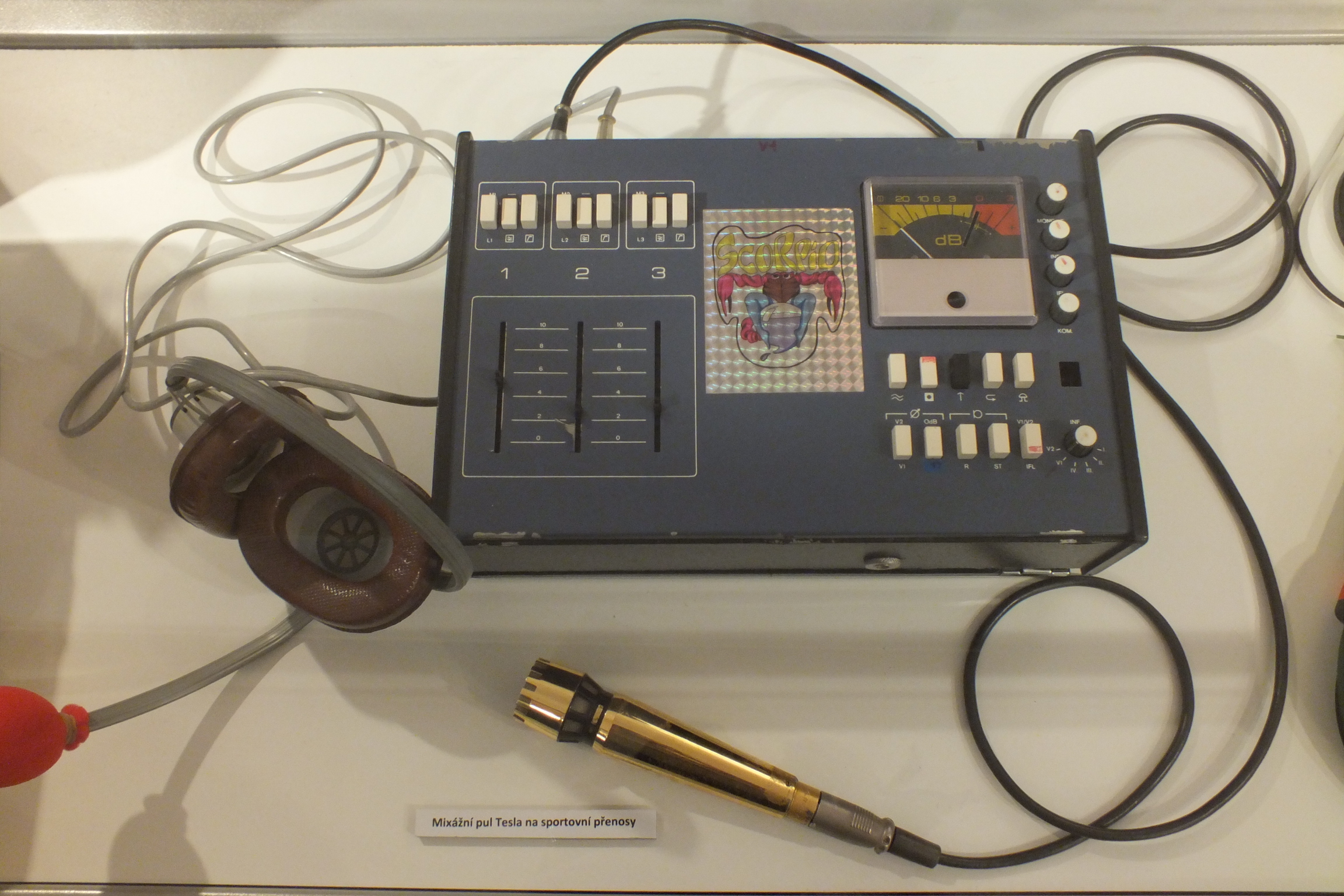 Audio mixer Tesla, used for sport broadcasting. From the vernissage of the exhibition on the history of the Czech Radio Olomouc called Hlásí se Olomouc in the Regional Museum in Olomouc on 8 December 2014.